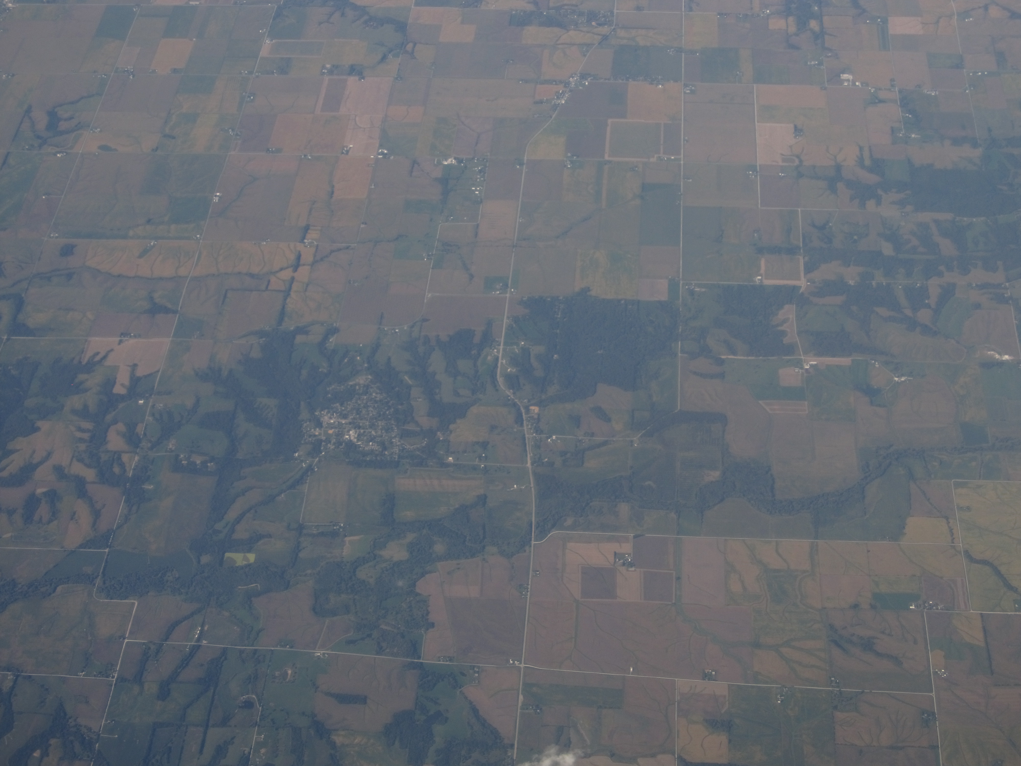 Matherville is a village in Mercer County, Illinois, United States. The population was 772 at the 2000 census.